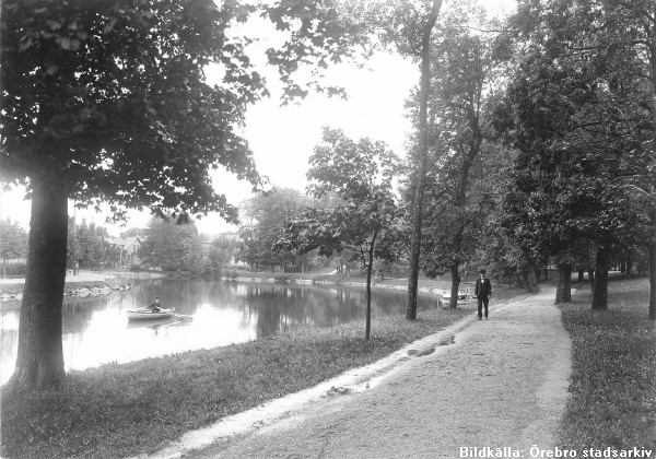 Örebro canal 1903